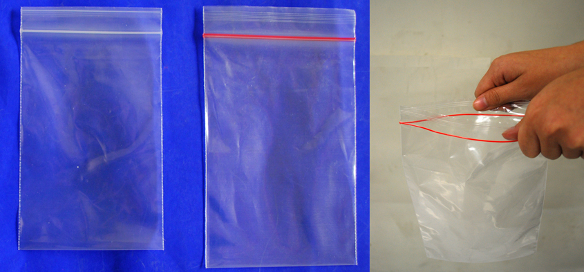 arsip gambar PT. Klip Plastik